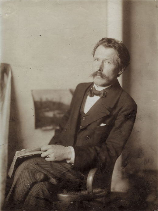 Photograph of Paul Raud.